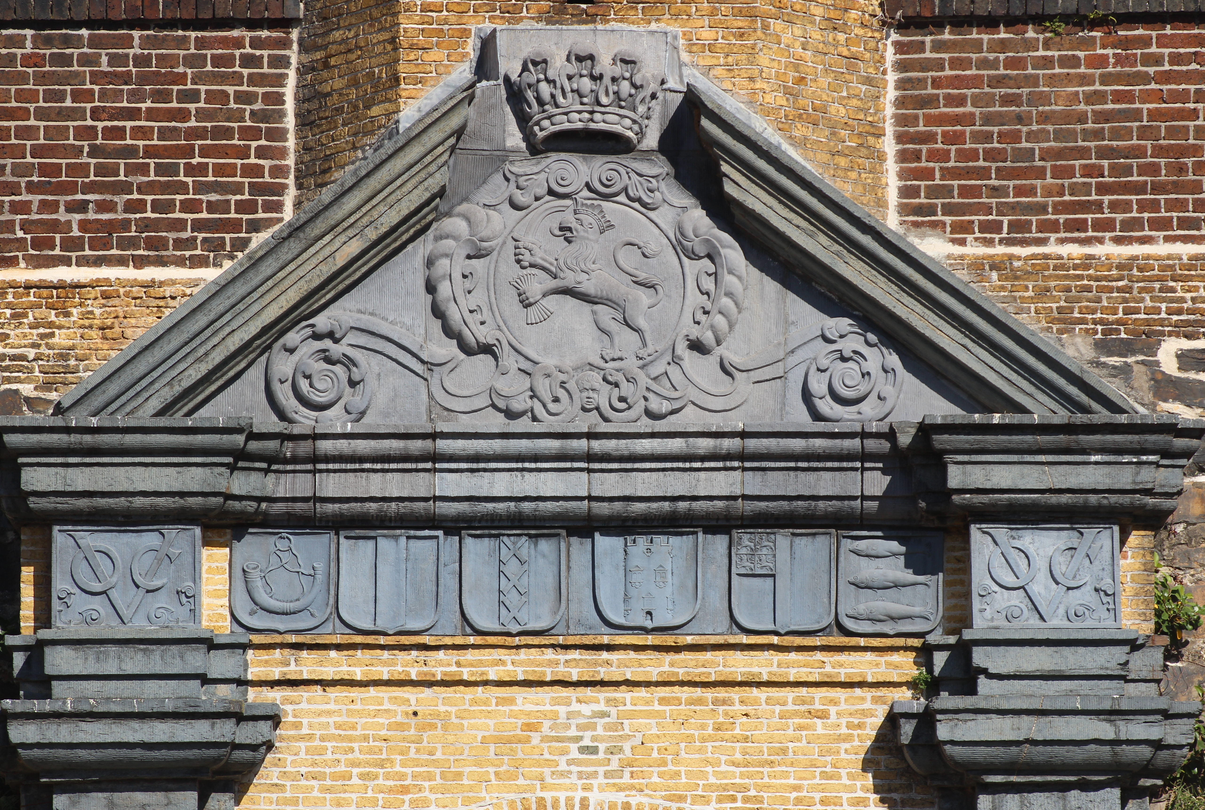 Heraldic devices, associated with the Vereenigde Oostindische Compagnie or VOC (Dutch East India Company), above the entrance to the Castle of Good Hope, Cape Town, South Africa. These devices are: Within the gable - shield of States General of the Netherlands (Dutch Republic)[1] Pillar capitals - "VOC" logo of the "Vereenigde Oostindische Compagnie" The VOC was founded by the chambers of commerce of six Dutch cities. The shields of these cities are depicted in a row below the gable. From left to right they are Hoorn, Delft, Amsterdam, Middelburg, Rotterdam and Enkhuizen.[2] This media shows a South African Protected Site with SAHRA file reference 9/2/018/0056See also: External entry in South African Heritage Resource Agency database.